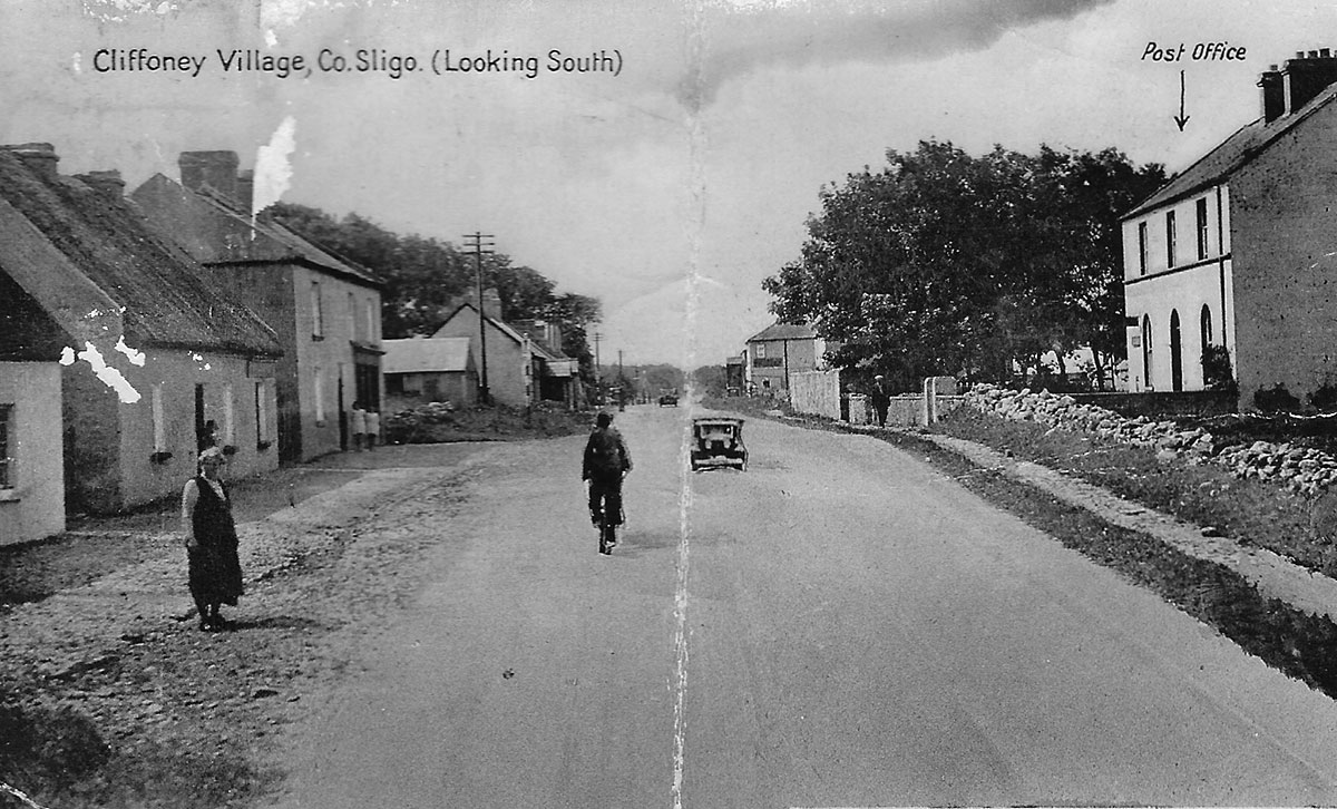 An old postcard of Cliffoney Village, probably 1930's.